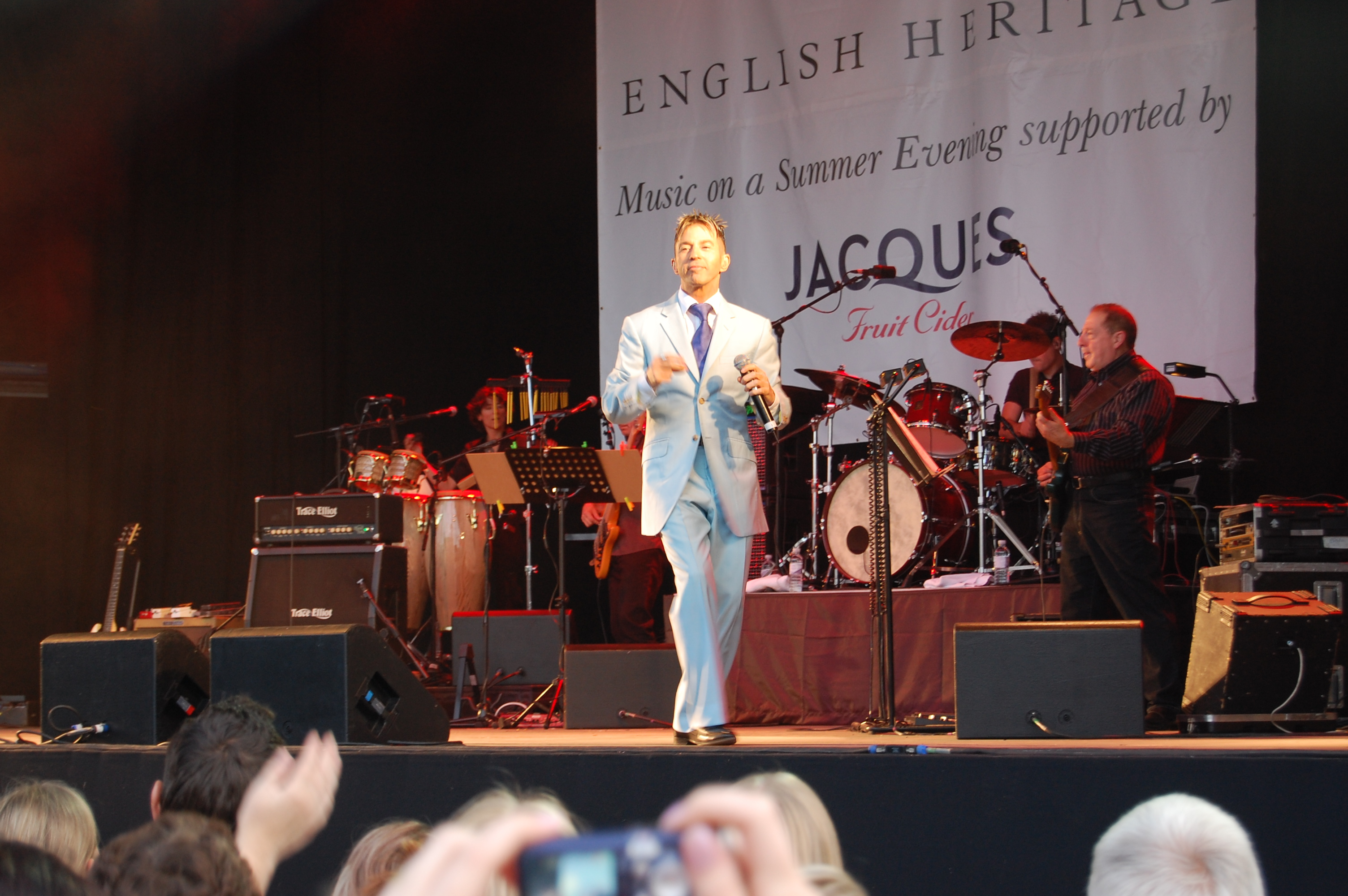 Chris Hamill aka Limahl at Audley End, Essex